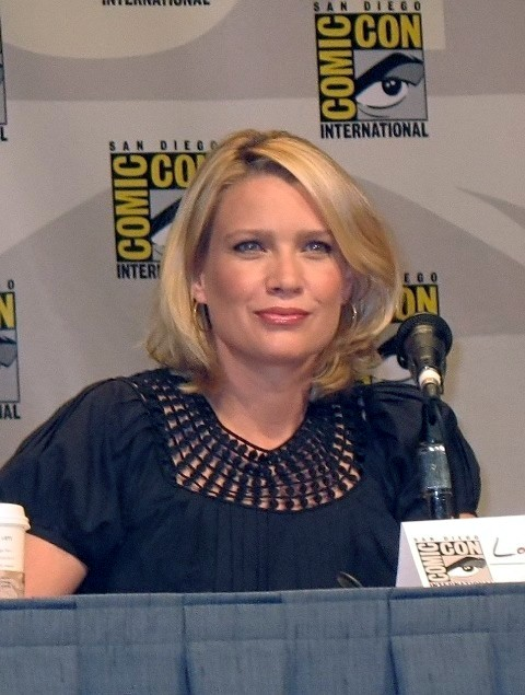 Laurie Holden promoting The Mist at the 2007 Comic Con